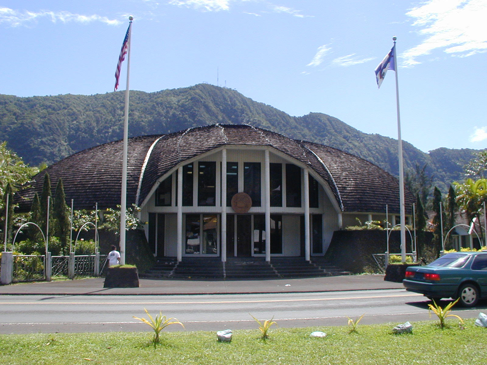 Picture of the American Samoa Legislature (Fono) building, obtained from NOAA at